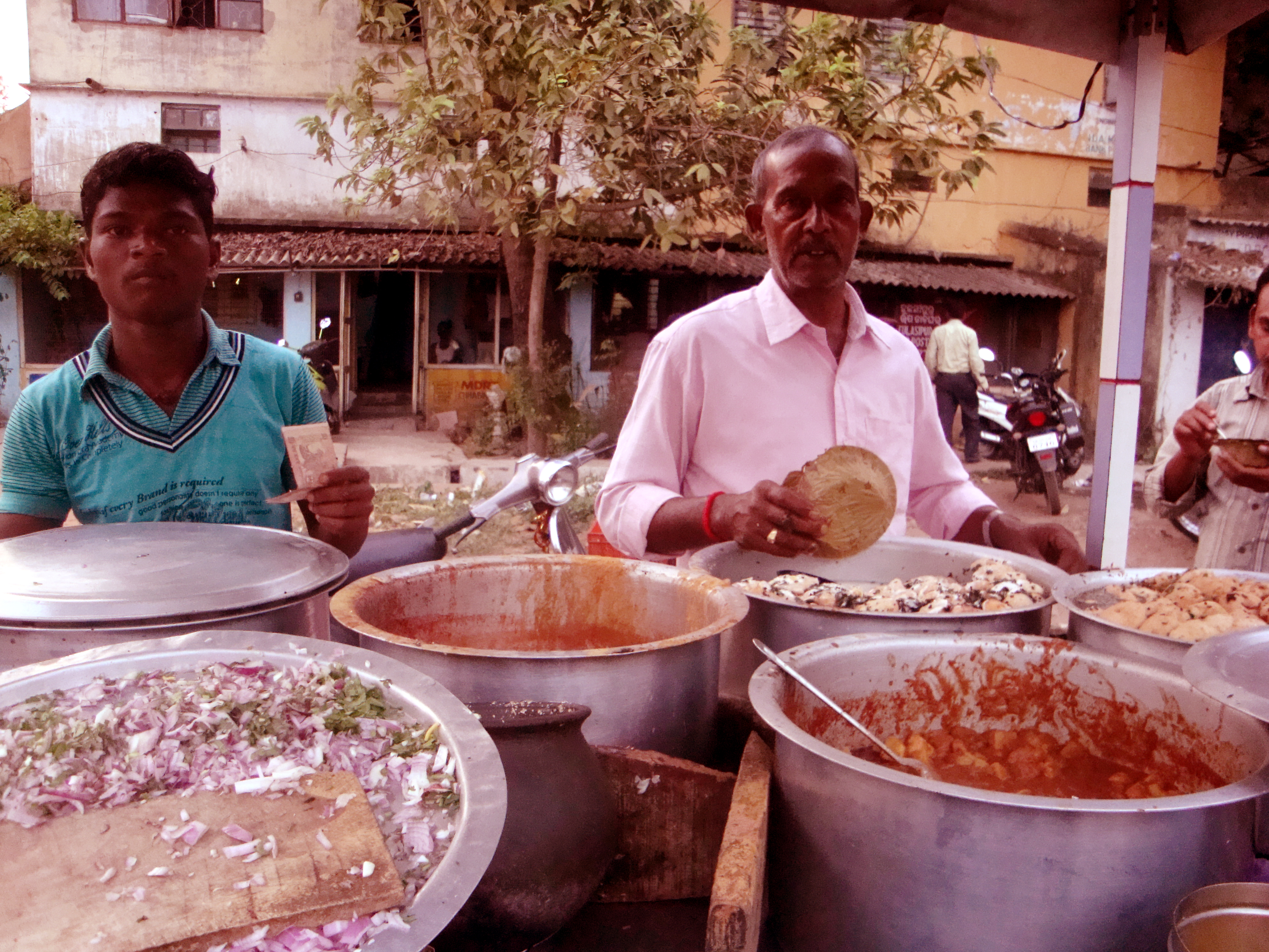 cuttack dahibara aludum